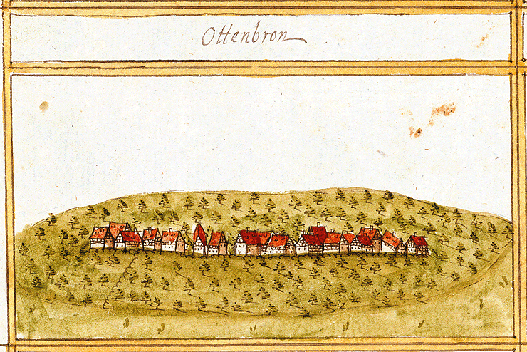 View of Ottenbronn, Althengstett, from the forest register books created by Andreas Kieser